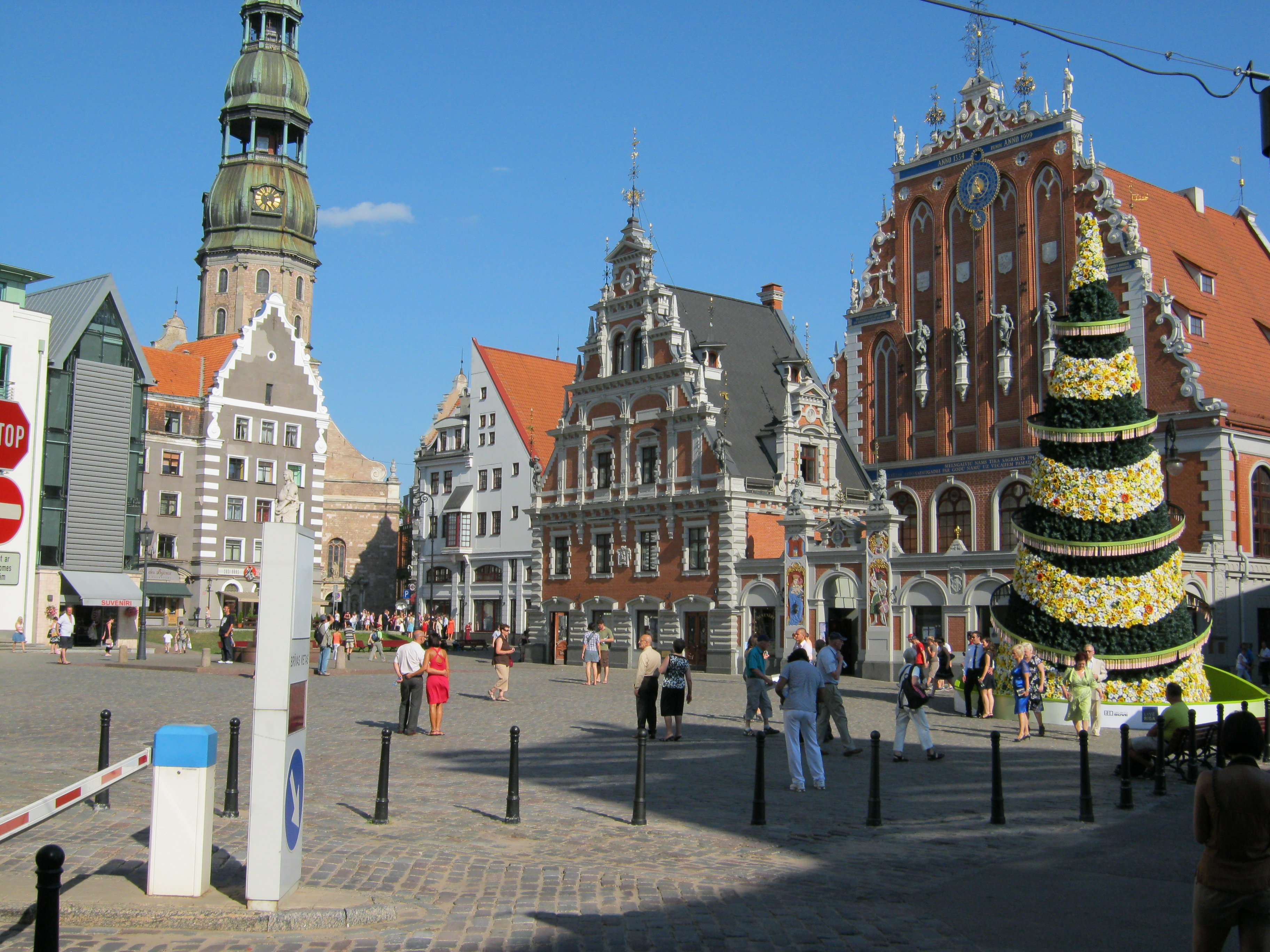 Riga's Old Town